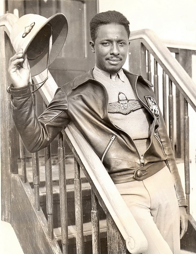 John Robinson, a member of the Brown Condor air force squadron fought in Ethiopia against Fascist Italy occupation forces in 1935.